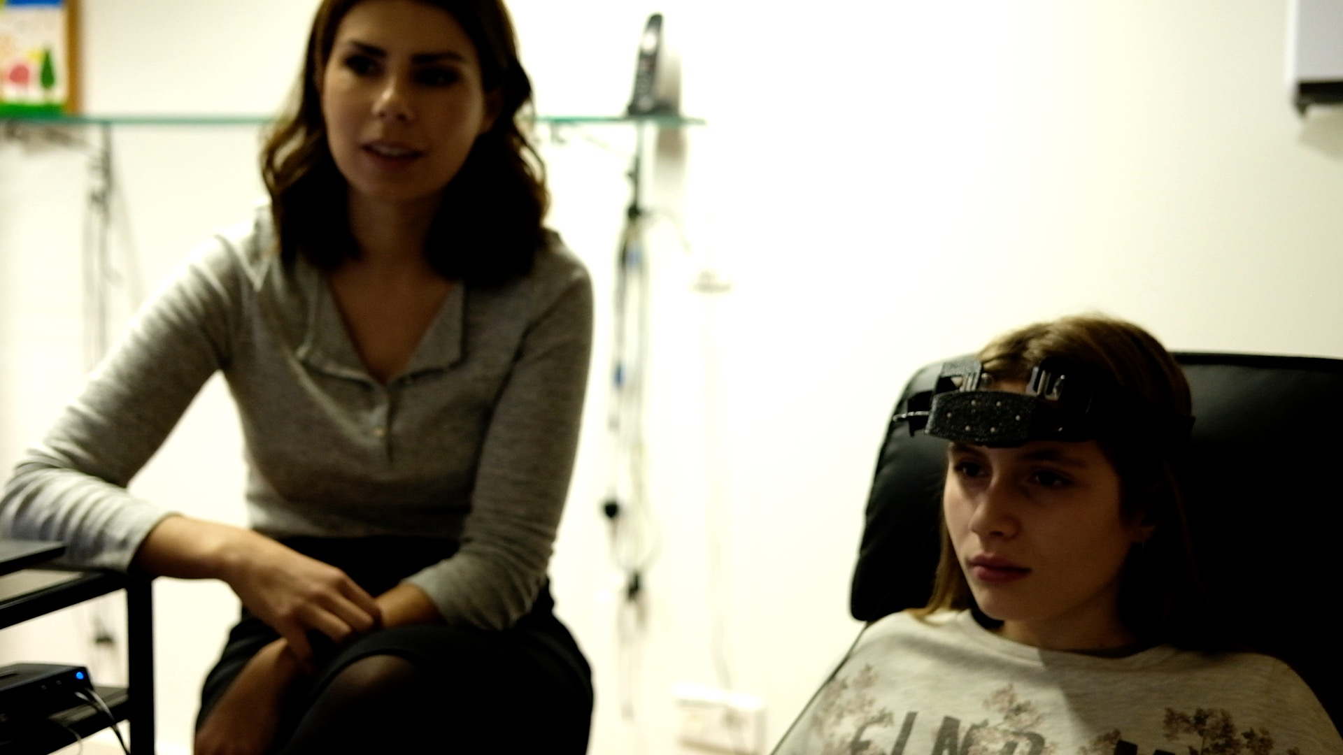 how is a neurofeedback session